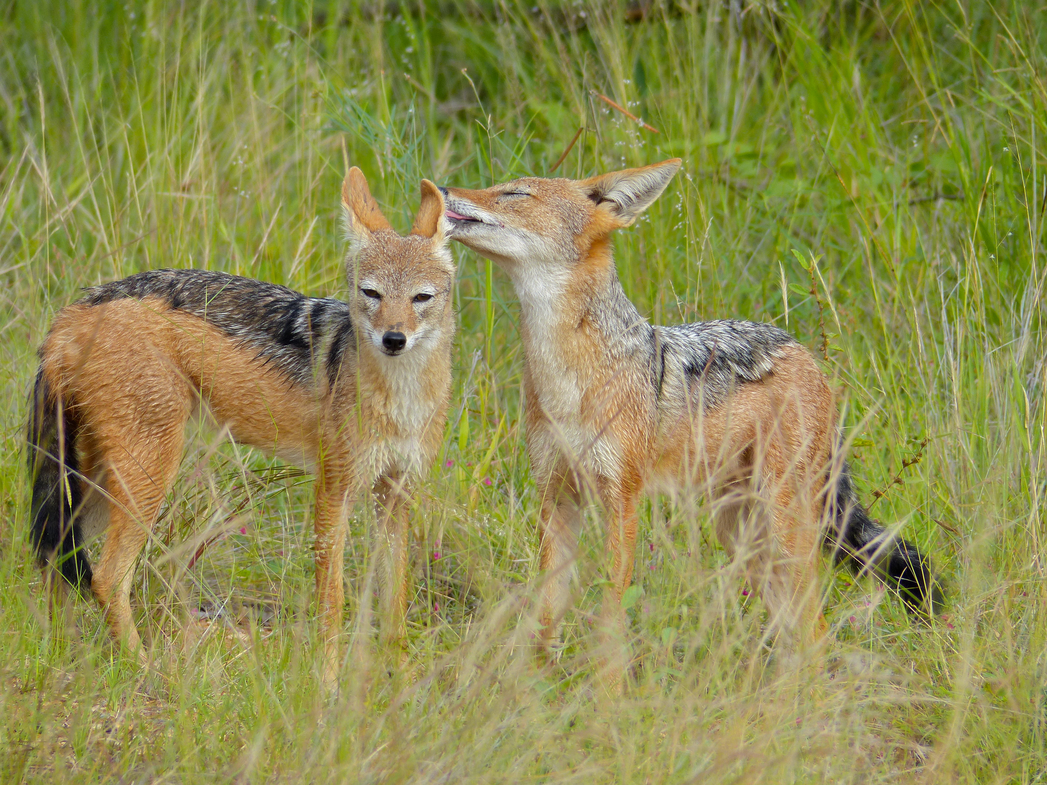 S131 Road North of Phalaborwa, Kruger NP, SOUTH AFRICA